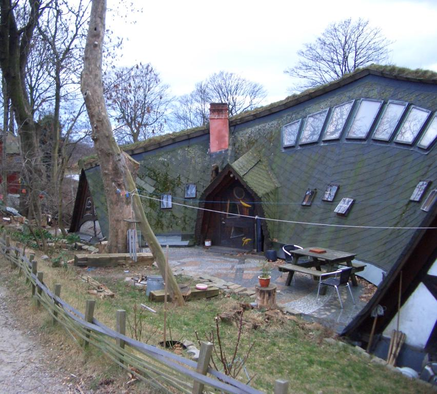 House in Christiania.